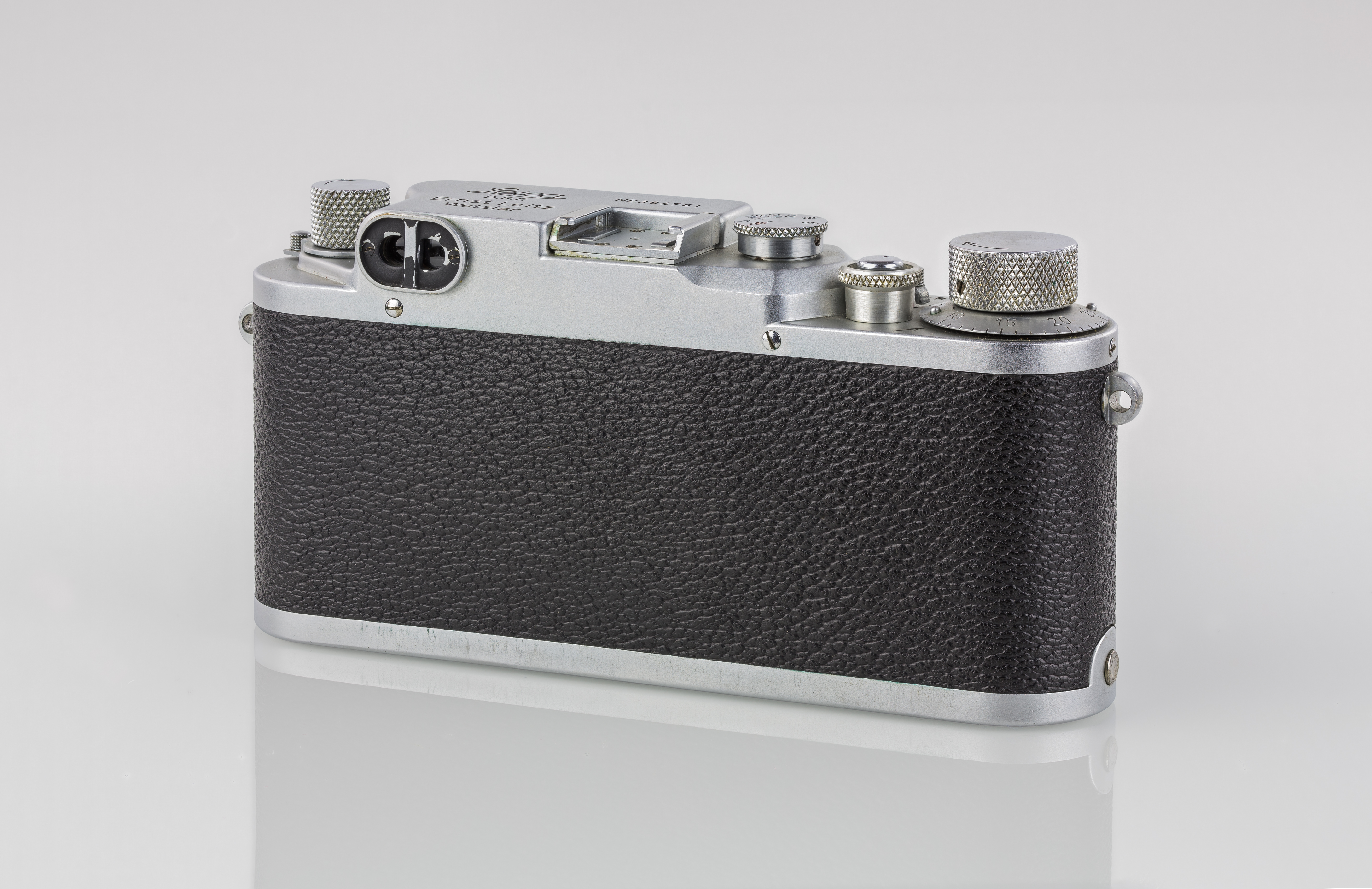 Leica IIIc chrome - Serial number 384761, Year of production 1941 - Mount: M39